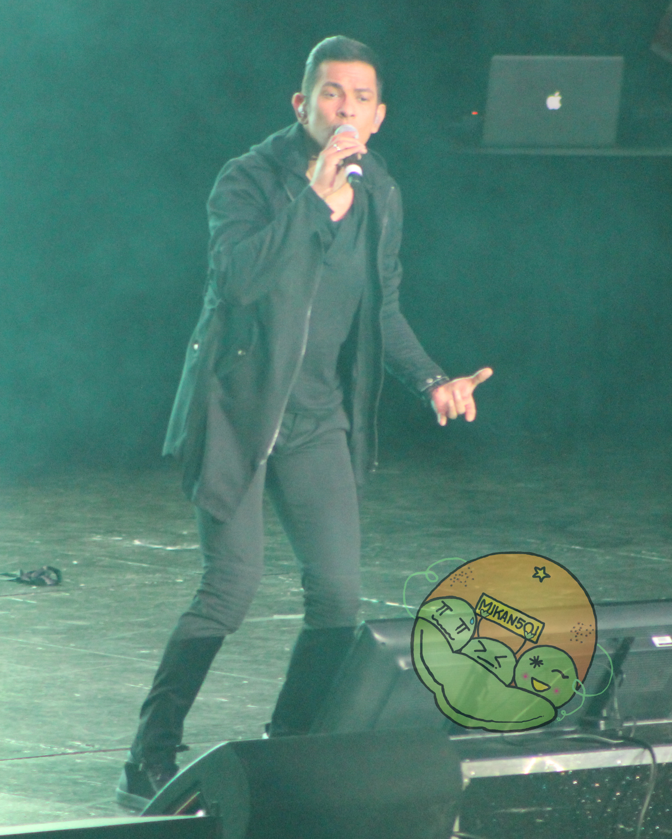 Gary V. singing during ABS-CBN's concert tour "One Kapamilya Go" in Toronto, Ontario on June 21, 2014